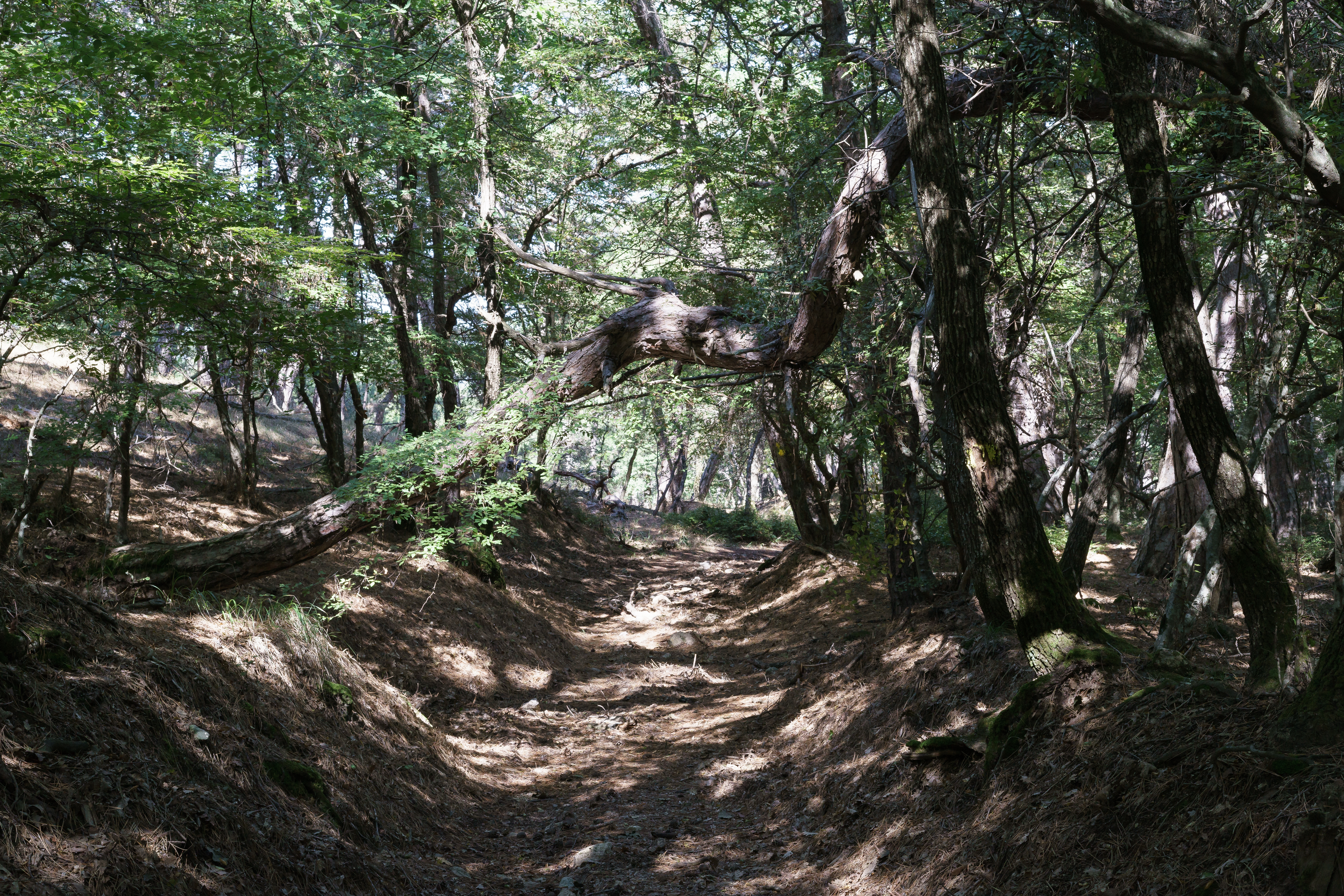 Trail in the Dadia-Lefkimi-Soufli Forest National Park - Evros / Greece